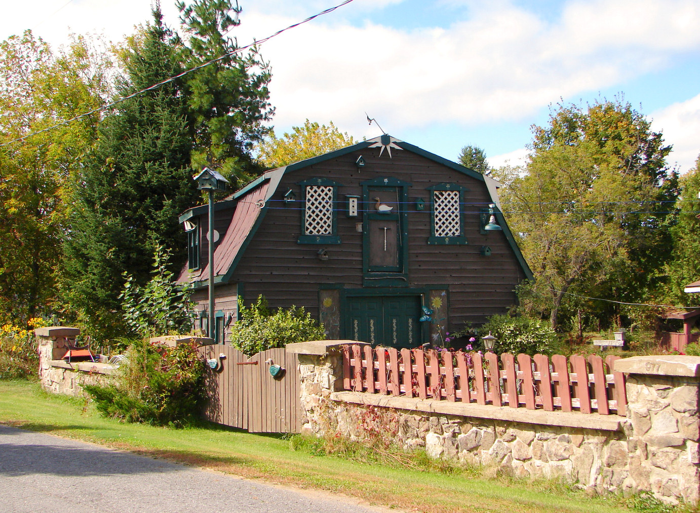 Greece's Point (part of Brownsburg-Chatham), Quebec, Canada